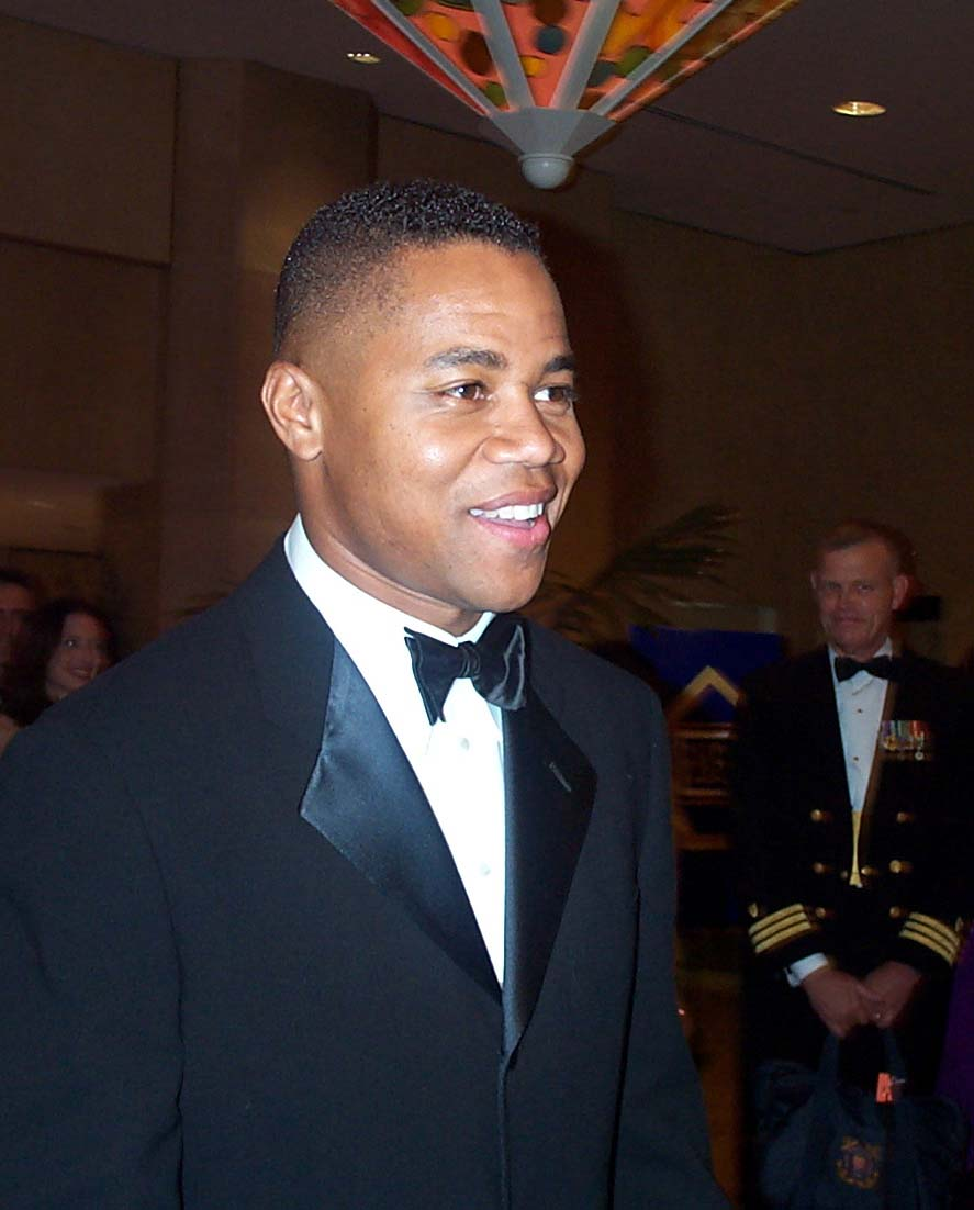 Cuba Gooding Jr., star of "Men of Honor," a film about the Navy's first black diver, Master Chief Petty Officer Carl Brashear, arrives at a military concert in Beverly Hills, Calif. DoD and the USO hosted the Nov. 30 event to honor comedian Bob Hope, Jack Valenti of the Motion Picture Association of America and the film industry for supporting America's armed forces.